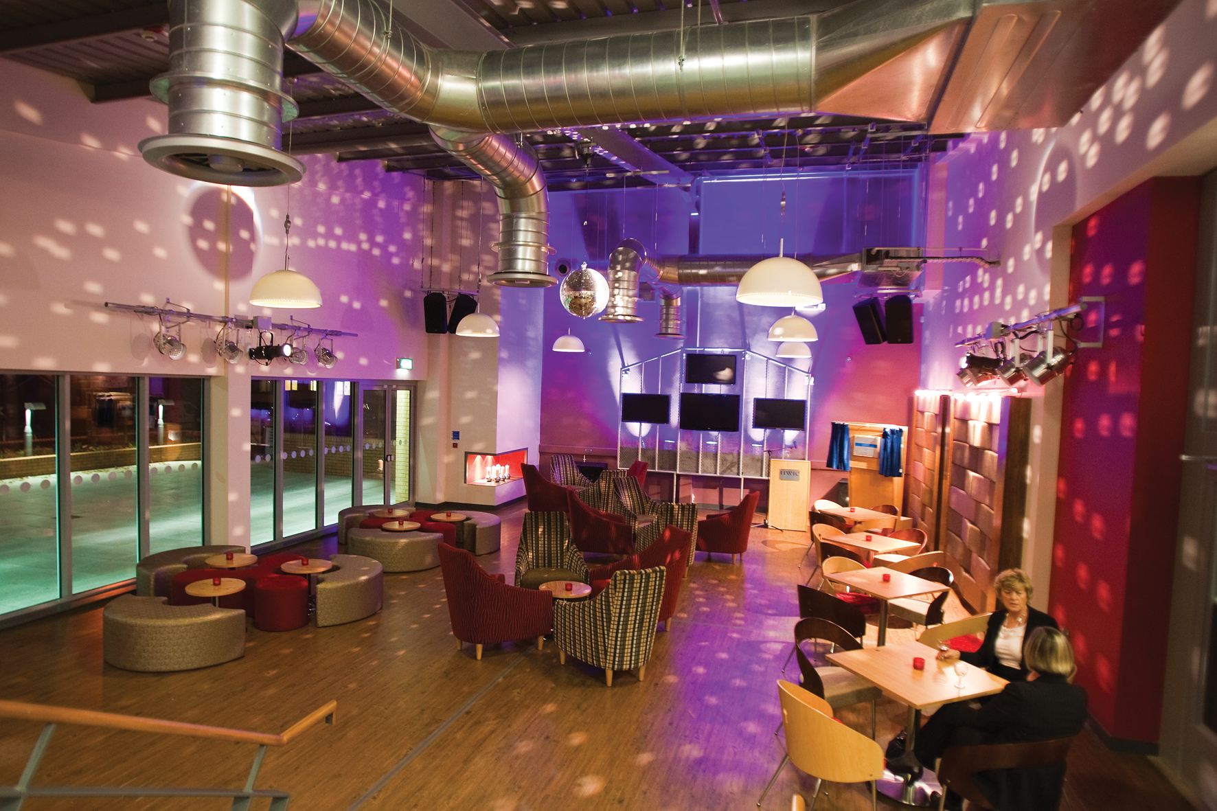 Inside the Campus Centre at UWIC's Cyncoed Campus